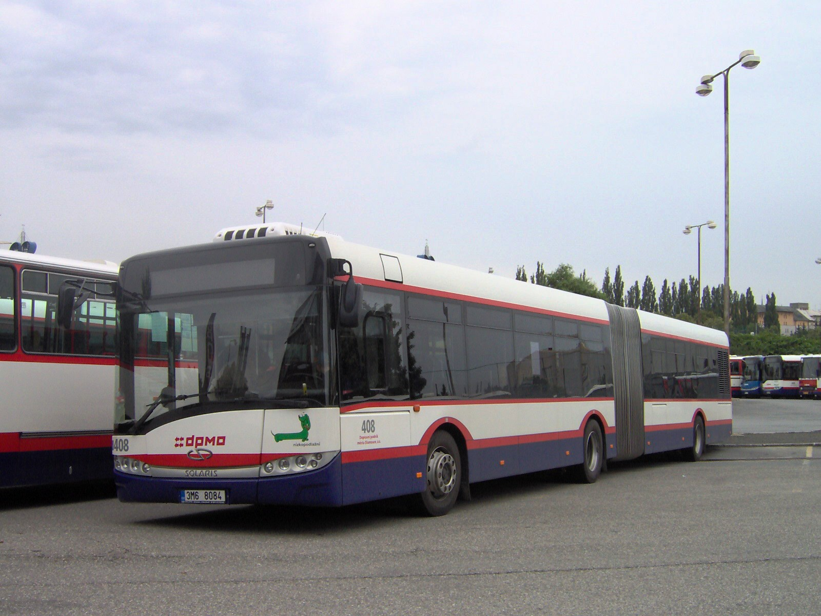 Solaris Urbino 18 Mk3 in bus depot, Olomouc, Czech Republic. Built 2008.